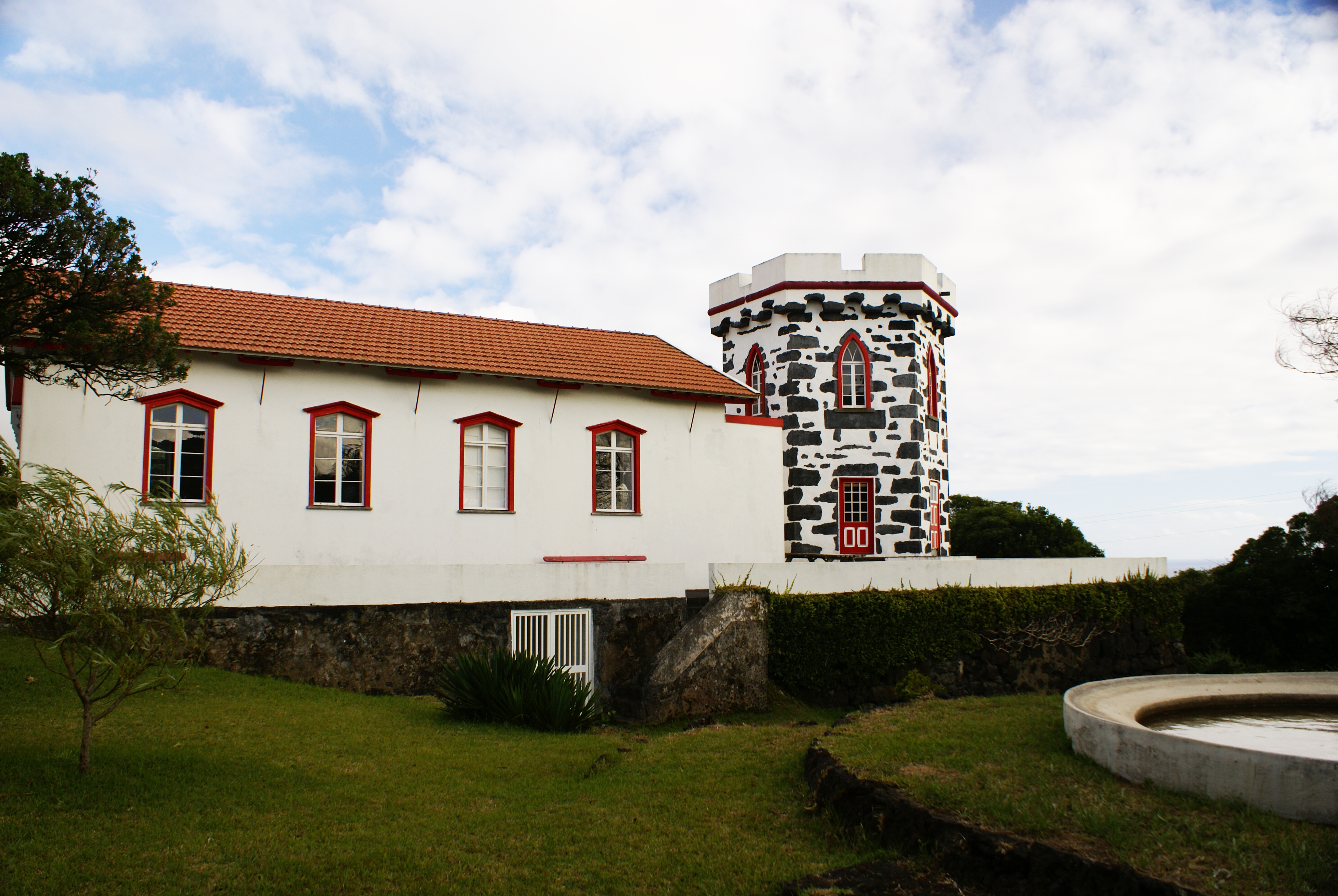 Capelo School of Handicrafts, Capelo, Horta, Faial (Azores), Portugal